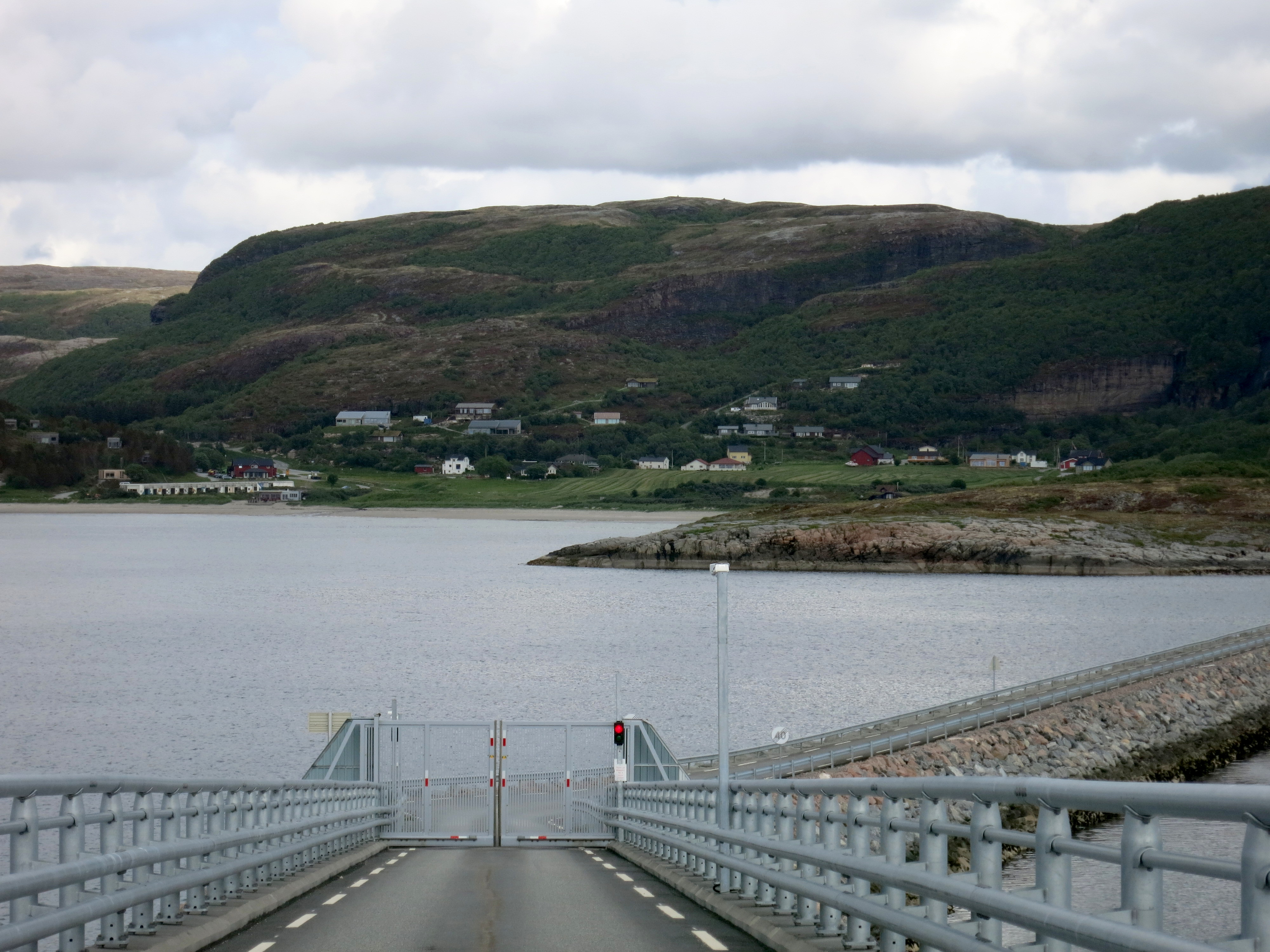 Wildlife blocking gate, Linesøybrua